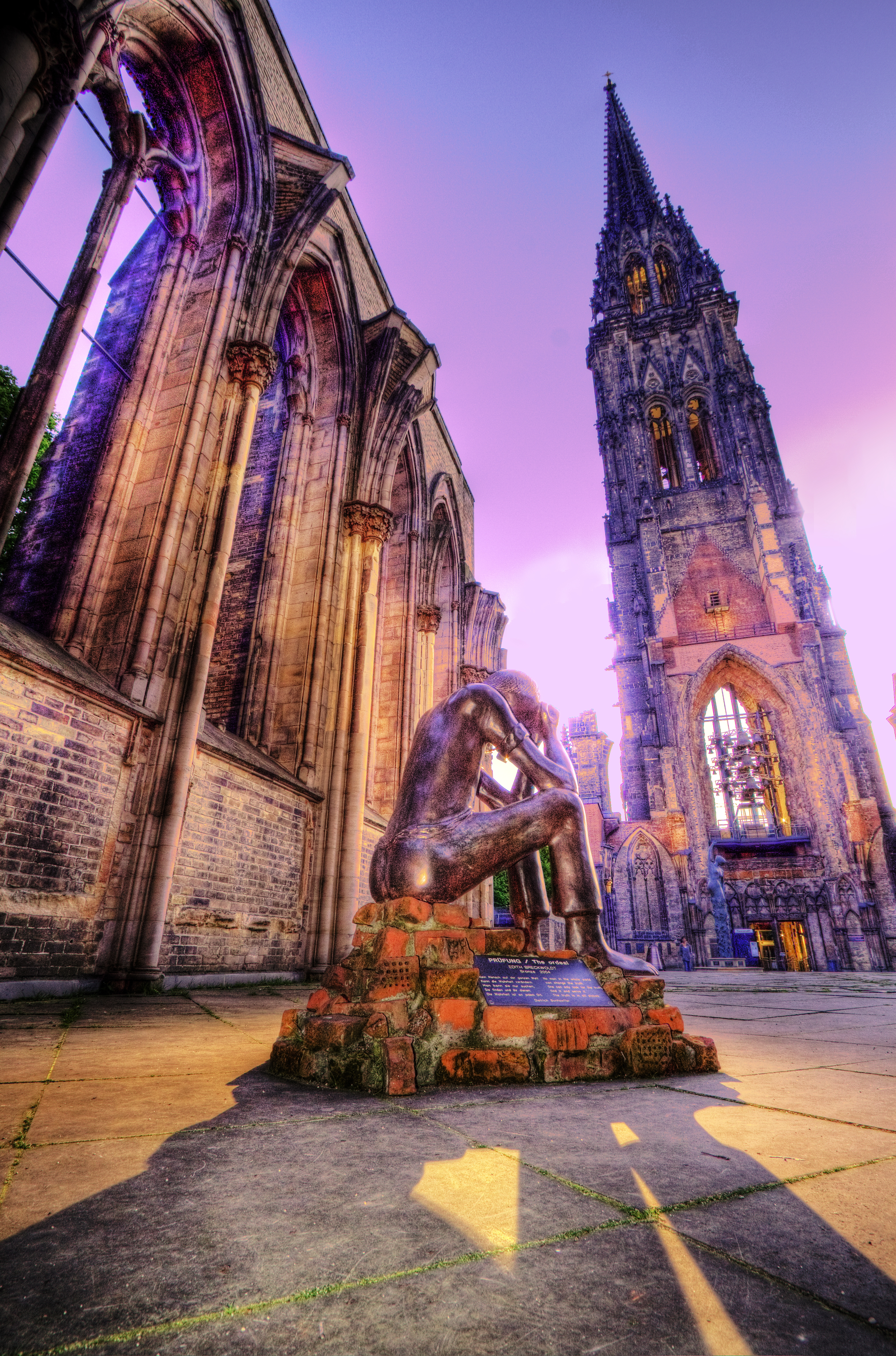 This is a photograph of an architectural monument.